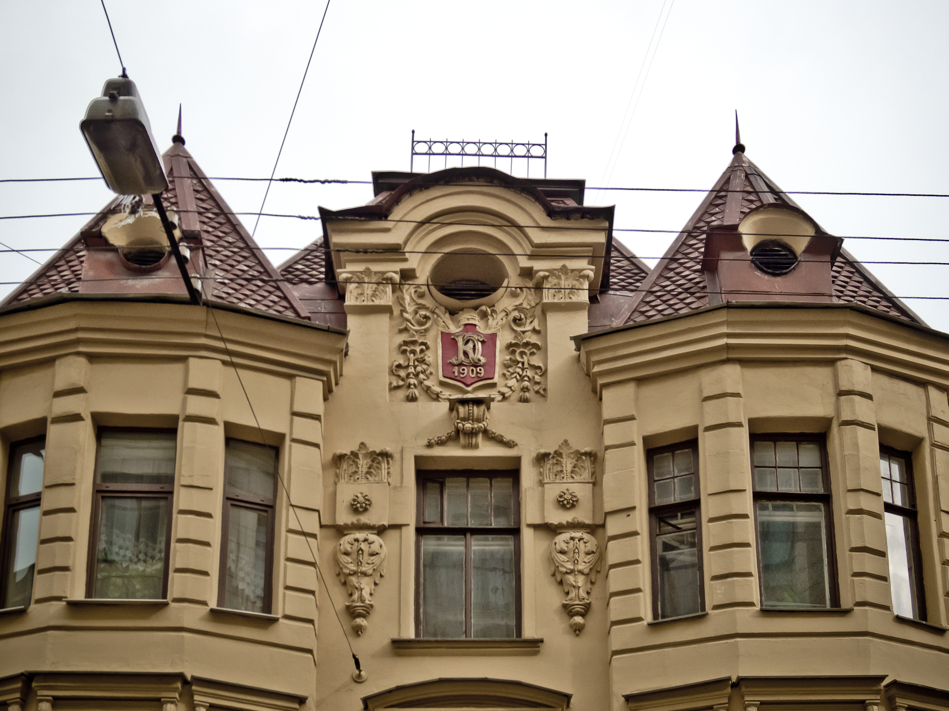 Saint Petersburg, 11 (fragment), Blokhina street